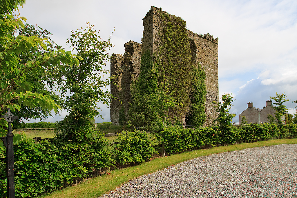 Castles of Leinster: Coolbanagher, Laois